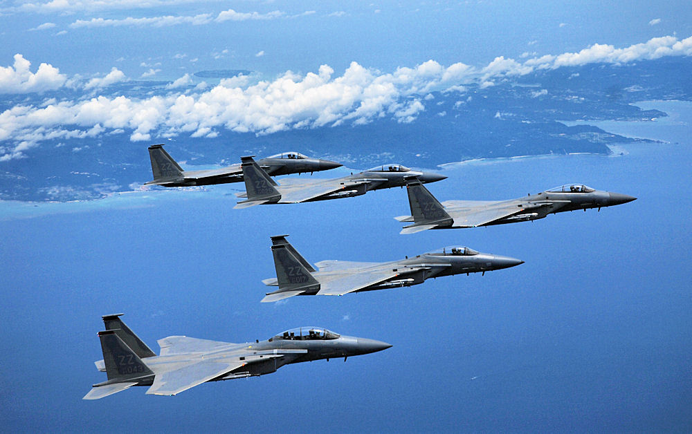 A flight of F-15C Eagles from the 44th Fighter Squadron, Kadena Air Base, flies over the island of Okinawa, Japan July 22, 2009. The mission took place during a total solar eclipse, a rare opportunity for service members stationed here to witness this unique event. (U.S. Air Force photo/Airman 1st Class Chad Warren)